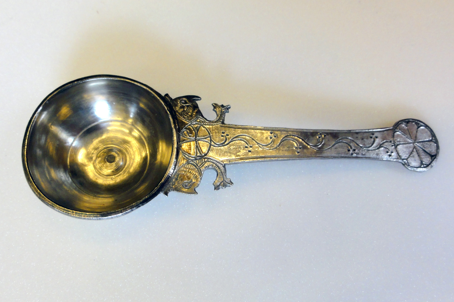 Silver-gilt ladle from the Hoxne Hoard in the British Museum showing use of Christian symbol.